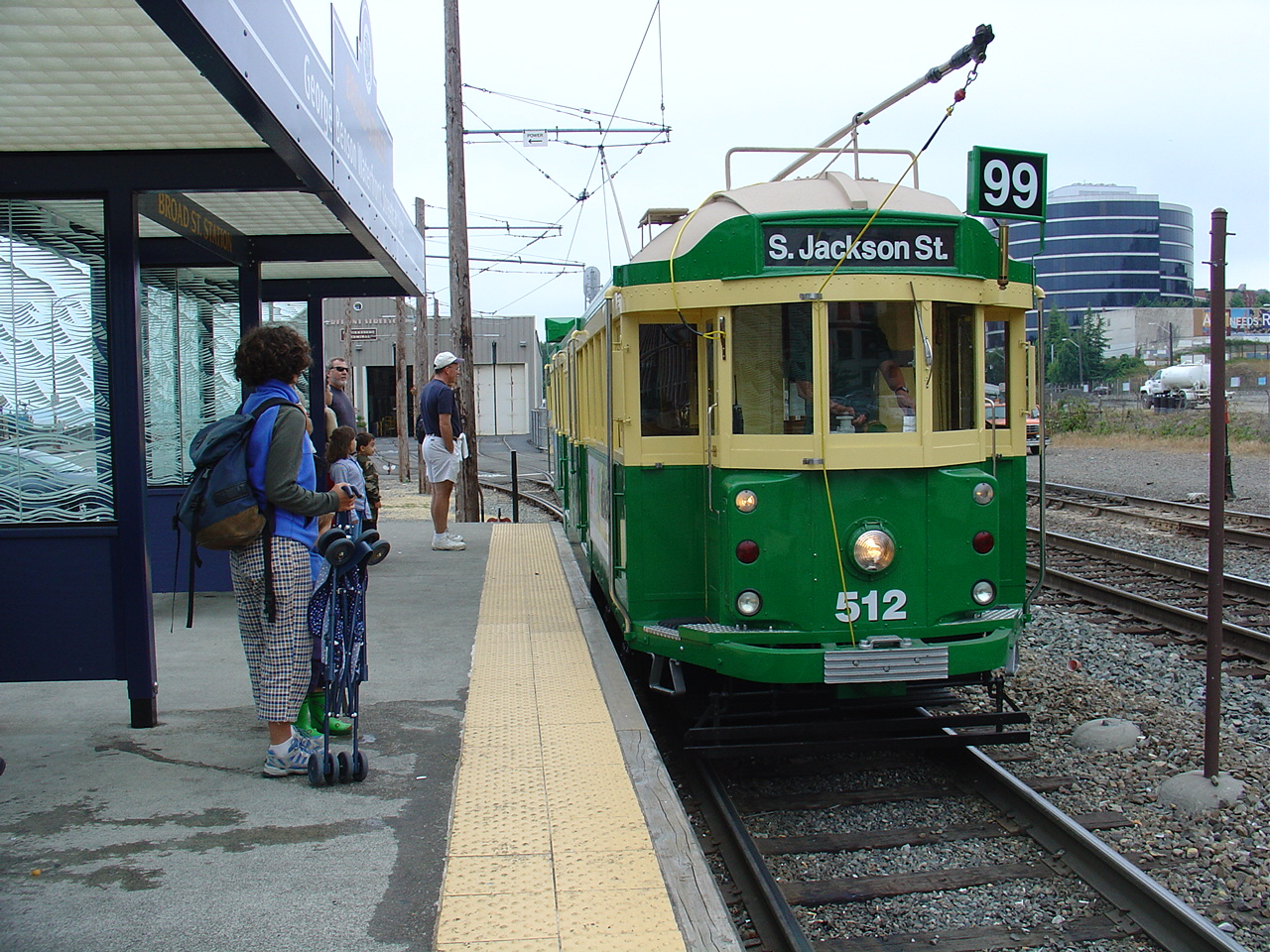 The following is the author's description of the photograph quoted directly from the photograph's Flickr page."The Waterfront Streetcar's barn is behind. The Olympic Sculpture Park now stands in its place. "